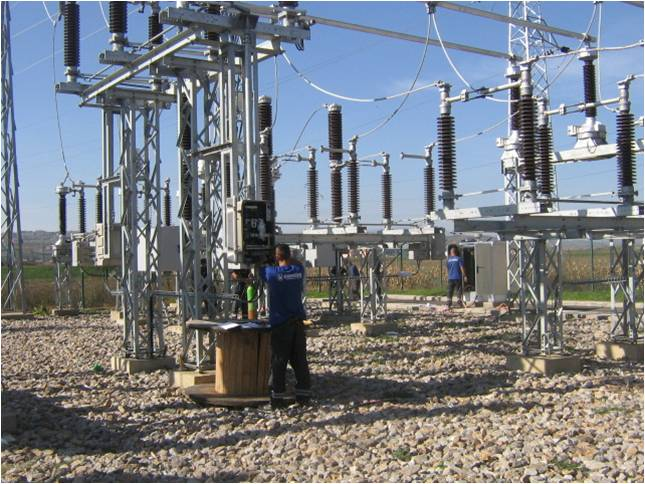 Sherbimet e NTSH Monting